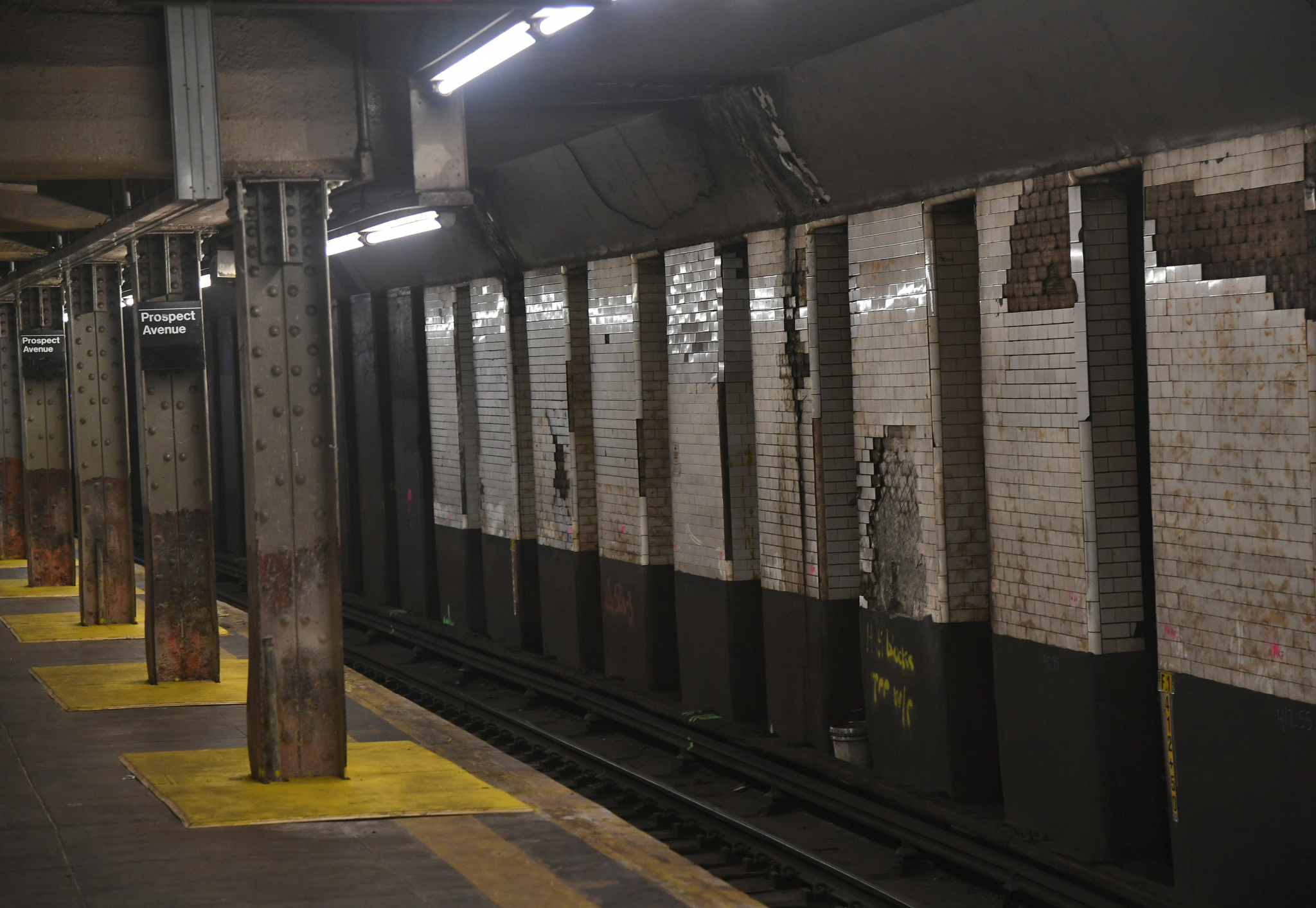 General views of the current state of the Prospect Av Station on the R line prior to pending rehabilitation, on Tue., April 4, 2017. Photo: Marc A. Hermann / MTA New York City Transit